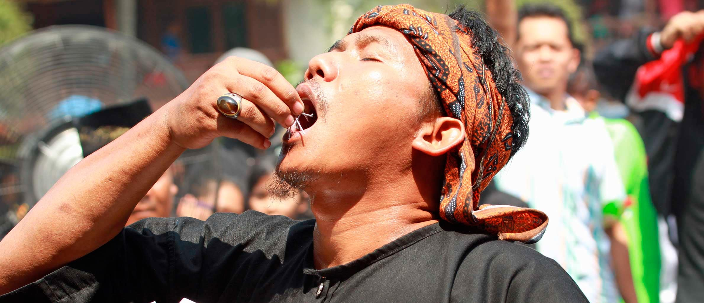 One of its cultural traits that is definitely most spectacular and breathtaking is the ancient art of Debus. Debus is the traditional martial art unique to Banten that is imbued with supernatural powers. Debus is a fusion of skills that require super-human inner strength, martial art but also music and dnce. It is a competition of prowess in invulnerability of performers (known as jawara) that is both scary and mesmerizing to watch. Through the art of Debus, the jawara can pierce sharp nails through his tongue, cheeks or other parts of the body. This extraordinary art is said to have been developed in the 16th century during the reign of the first sultan of Banten, Sultan Maulana Hasanudin (1532-1570). During the reign of Sultan Ageng Tirtayasa in the 17th century, Debus was used as a method to galvanize the spirit of resistance against Dutch colonial powers. The term Debus is said to be derived from the Arab word ‘dablus’ which is a sharp iron lance that has a round handle at its base. This is believed to be the object used in the art of Debus.